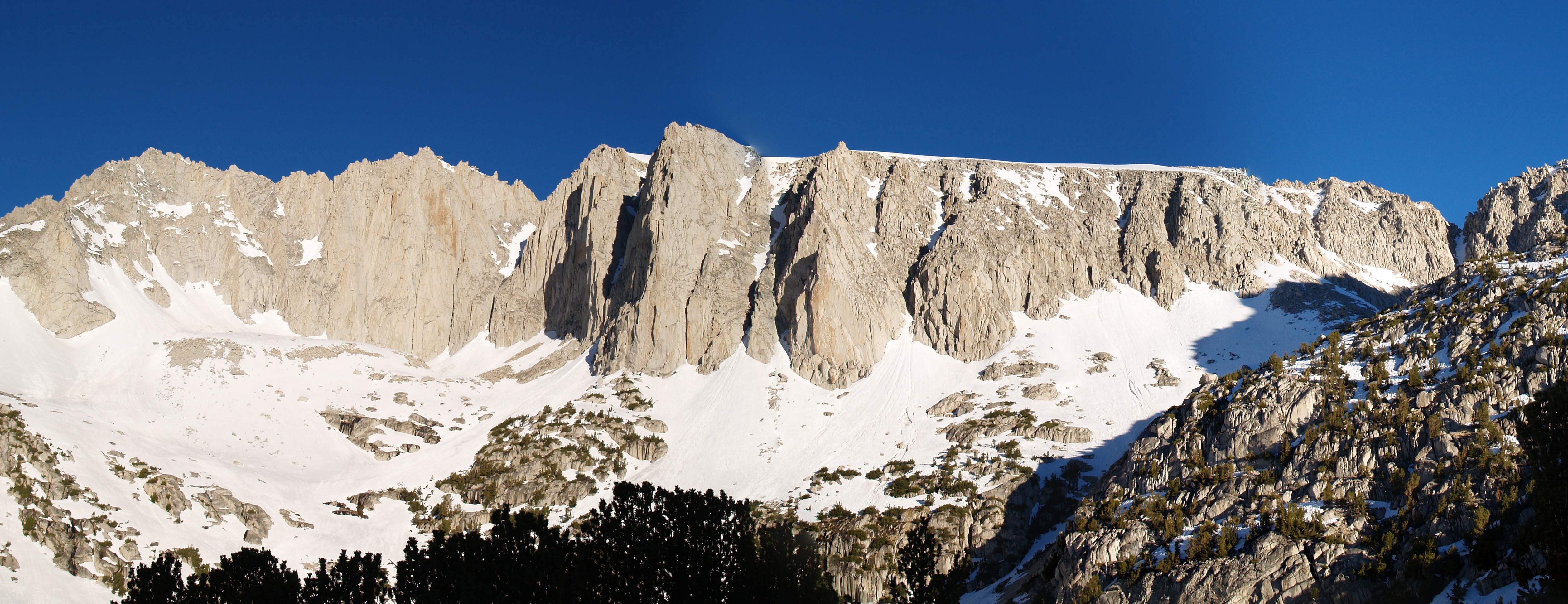 This was taken below the Ruby Wall (center), and above Little Lakes Valley, in the John Muir Wilderness, Sierra Nevada, California. Mono Pass is through the notch on the far right of the picture. Mount Mills is on the far left of the picture.